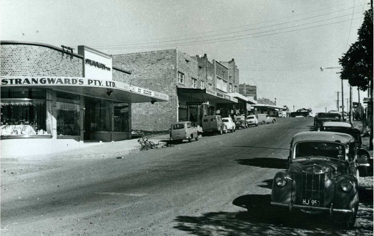 Howard Road shopping centre, looking west towards railway bridge. [Bankstown City Library photography collection] To access the Bankstown City Library Collection click here: .au/Libero/bankstown/toolbar/lib...